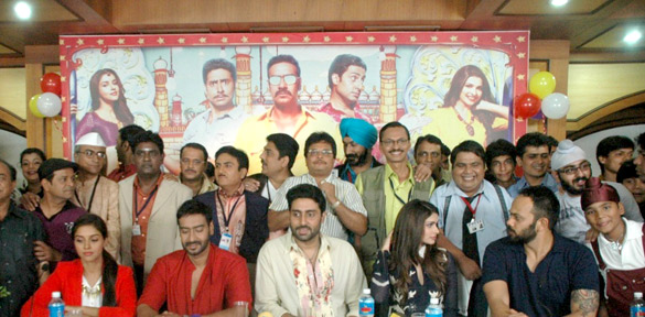 Asin, Ajay Devgn, Dilip Joshi, Shailesh Lodha, Abhishek Bachchan, Prachi Desai, Rohit Shetty 'Bol Bachchan' team on the sets of Taarak Mehta Ka Ooltah Chashmah